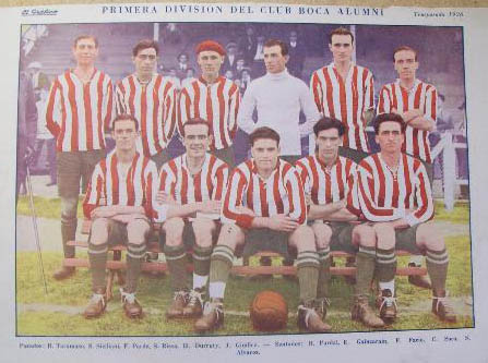 The Boca Alumni football team, posing before a match.